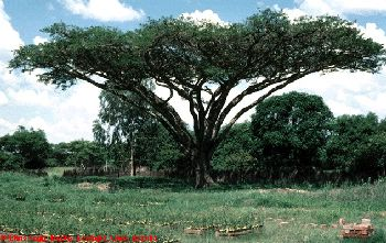 Var. woodii: Habit of A. sieberiana var. woodii (flat topped crown) in the Chesa Research Tree Nursery, near Bulawayo, Zimbabwe.